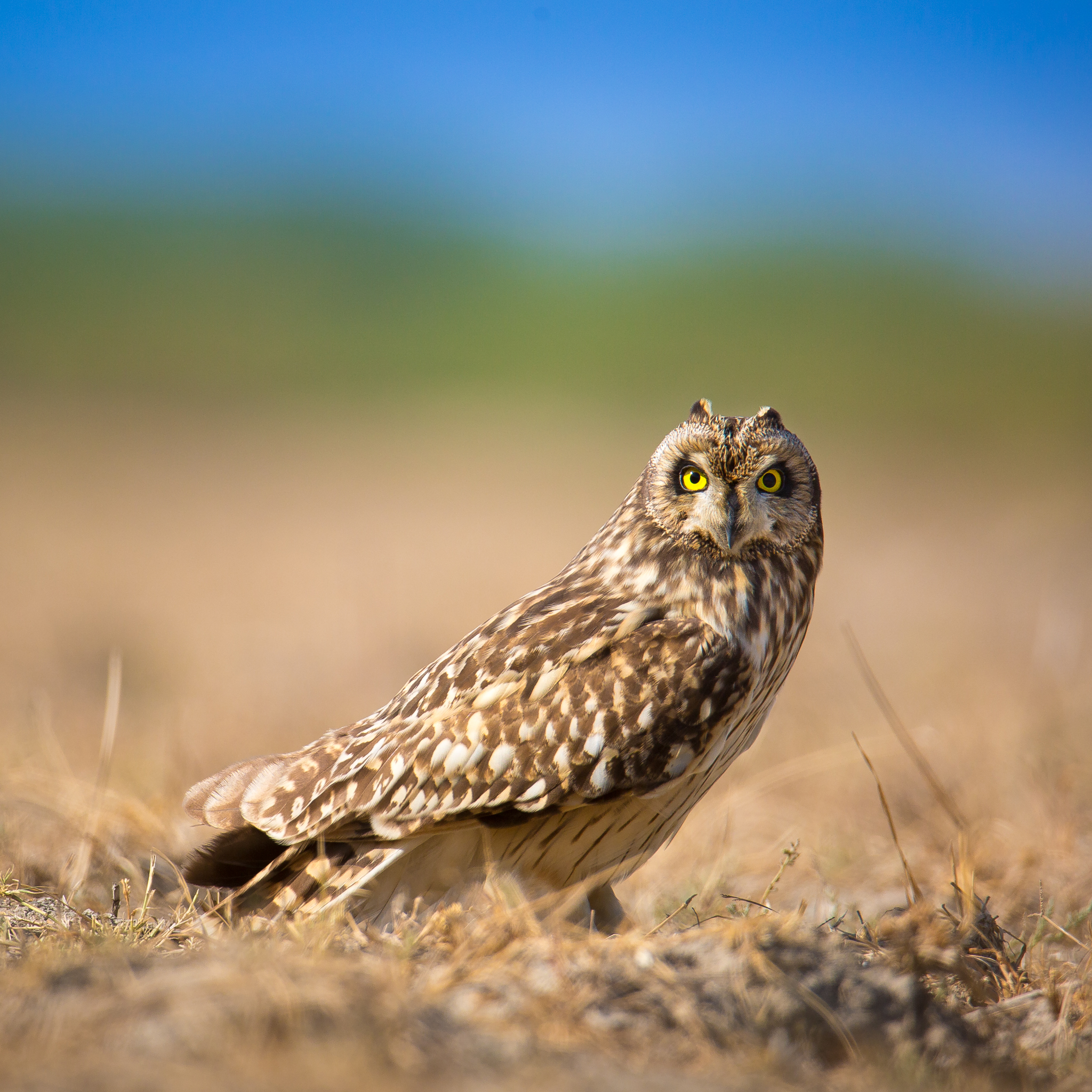 Individual at the Little Rann of Kutch